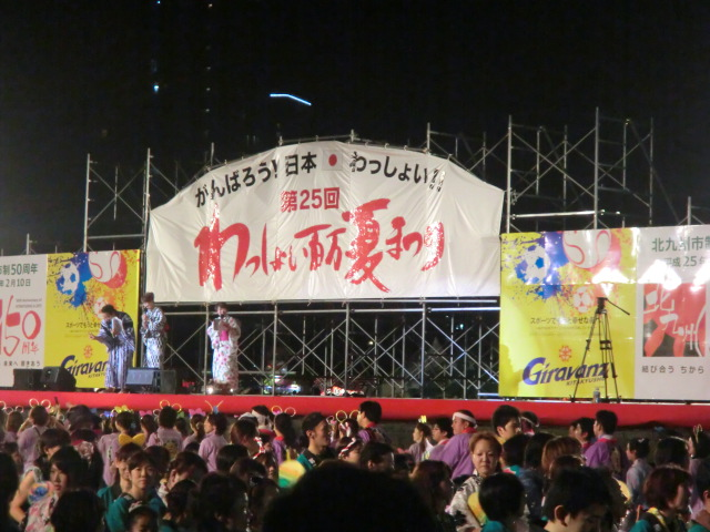 Wasshoi Hyakuman Natsumatsuri（Summer festival of million citizens） held in Kitakyushu city of Fukuoka prefecture,Japan.